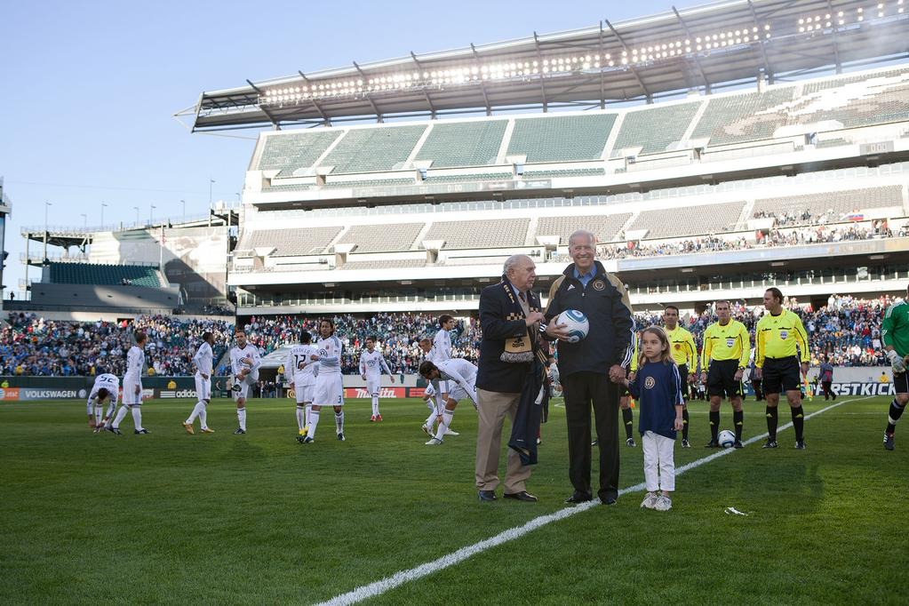 Joe Biden with Walter Bahr and granddaughter Natalie before Philadelphia Union vs DC United at Major League Soccer match at Lincoln Financial Field.